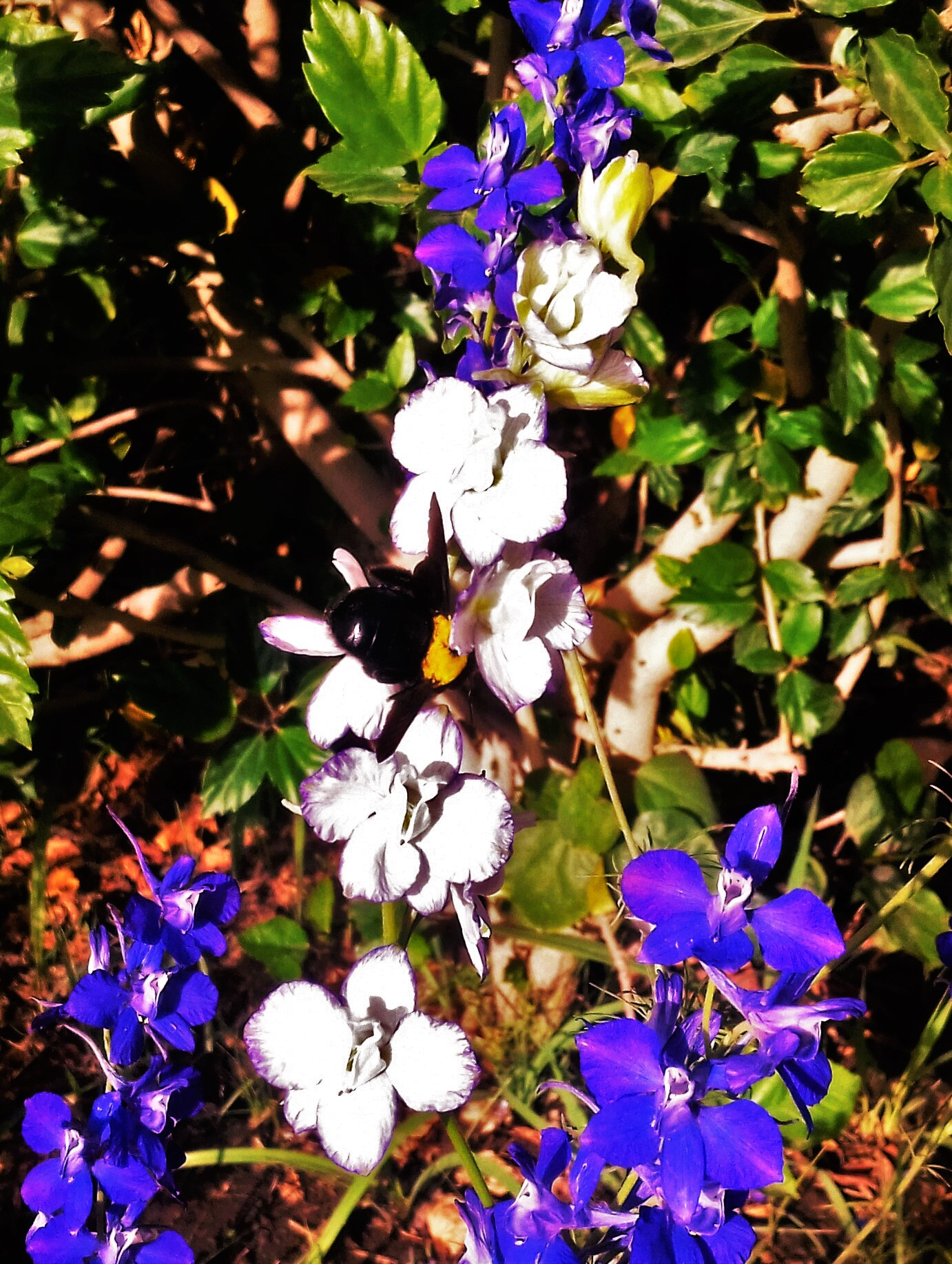 It was the first time for me to see this kind of bees ..It was a visitor in my college ..Welcome visitor! It was taken by a 8 megapixel camera phone Samsung J3